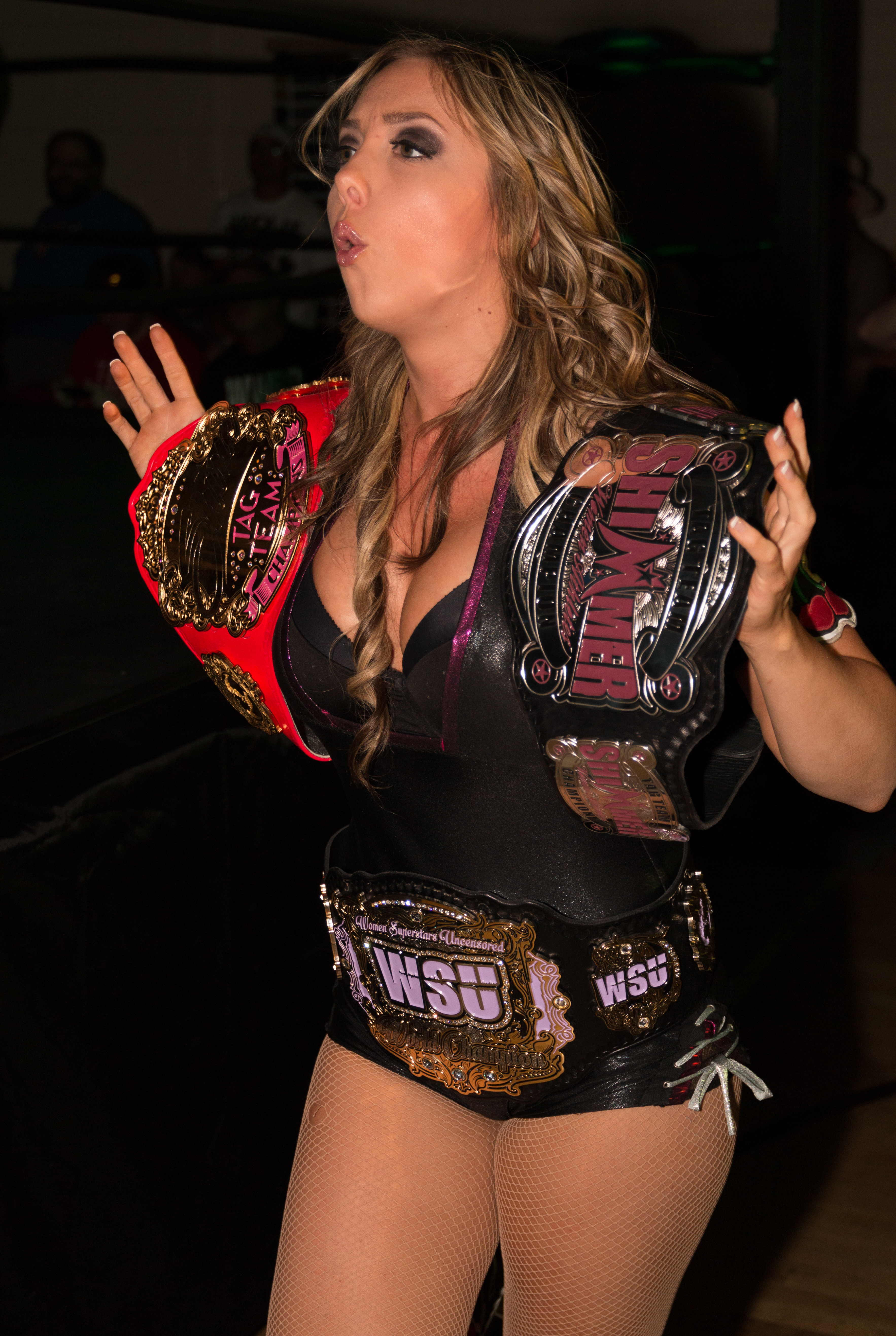 Cherry Bomb with the WSU championship belt around her waist, the Shimmer Tag Team championship belt on her left shoulder, and the Shine Tag Team championship on her right shoulder. Photo taken at Smash Wrestling's Give Divas a Chance show in Etobicoke, ON